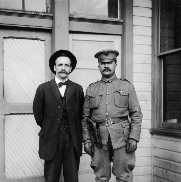 Picture taken in 1914